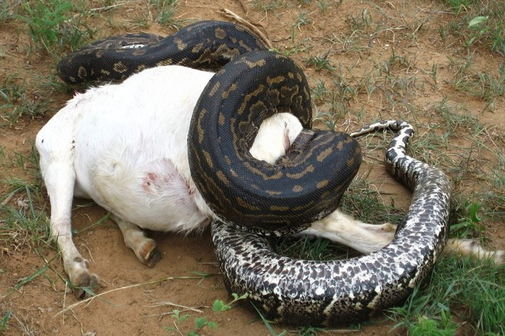 Southern African Rock Python (Python natalensis) approx. 15ft (?!) constricting an adult female domestic goat, which is probably pregnant. The picture was taken in Zimbabwe, in Matabeleland South Province about 30 kilometres northwest of Bulawayo.